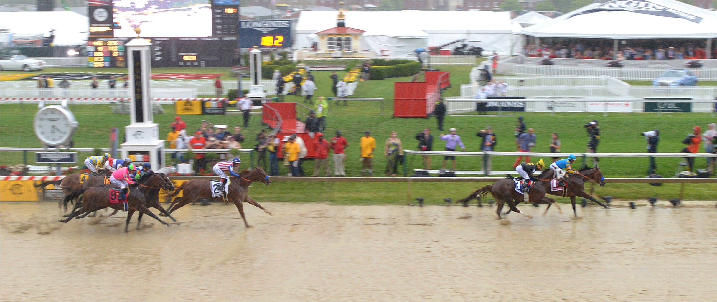 Governor Hogan attends 2015 Preakness Stakes by Tom Nappi at Pimlico, Baltimore, Maryland 2015 Preakness Stakes at Pimlico. A thunderstorm resulted in sloppy track conditions. This image taken early in the race, the first time the field passed the stands. American Pharoah led throughout and won the race